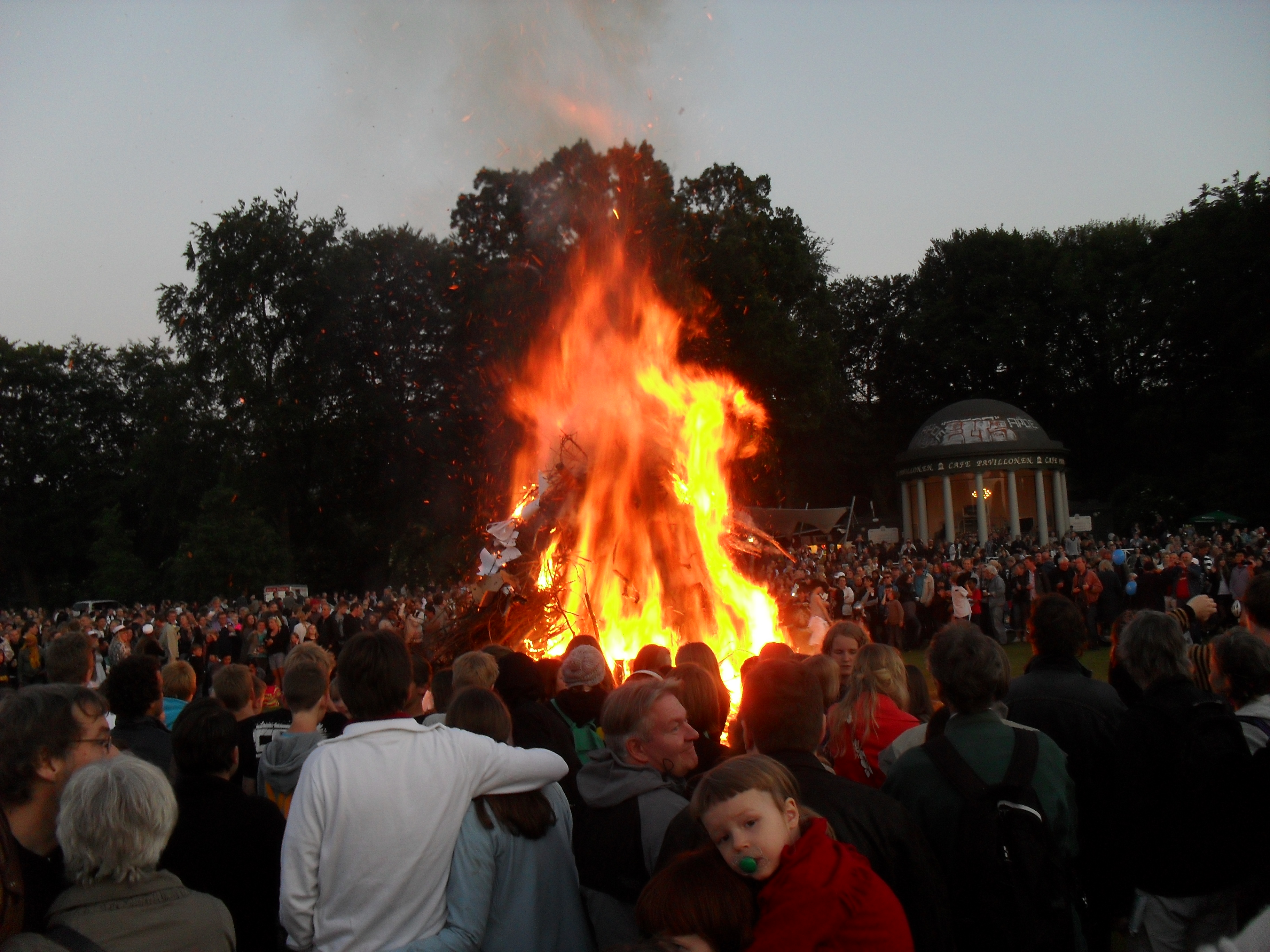 Midsummer fire at Fælledparken, Copenhagen